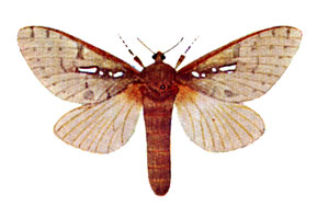 Wiseana cervinata G. V. Hudson. 1928. The Butterflies and Moths of New Zealand. Ferguson & Osborn Ltd., Wellington